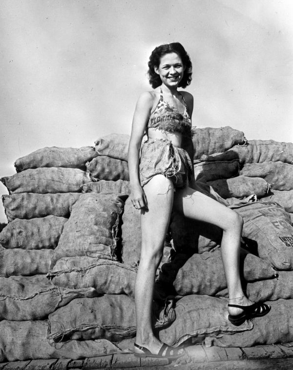 Potato queen, Peggy Davis, standing by sacks of potatoes - Hastings, (no known copyright restrictions )